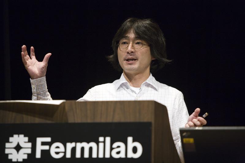 Hitoshi Murayama, MacAdams Professor of Physics, University of California, Berkeley, spoken about "The Intensity Frontier of the Quantum Universe" at a workshop on November 2007.